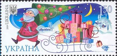 Марка «З Новим роком!»